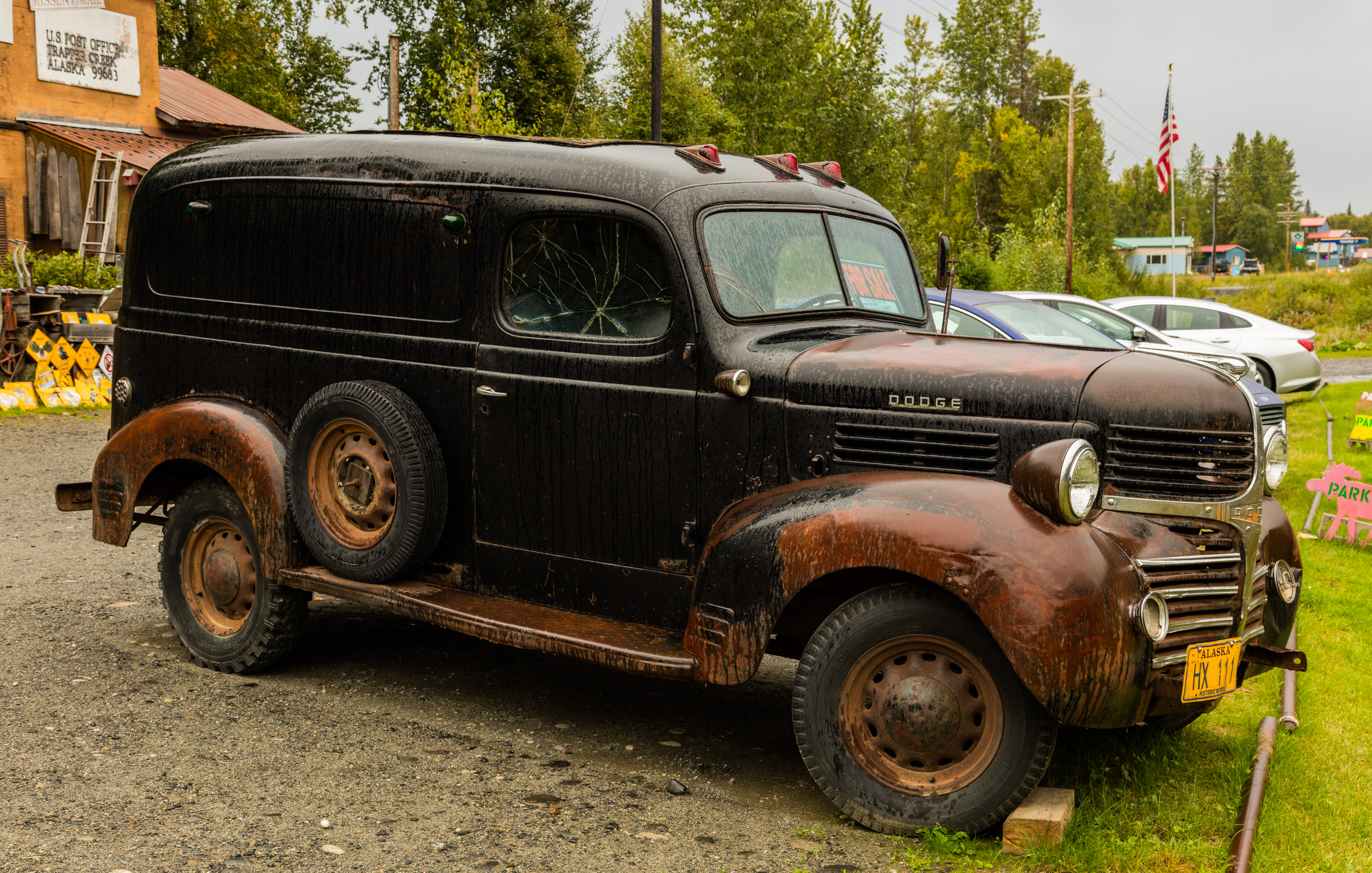 Dodge Panel, shop in Trapper Creek, Alaska, USA